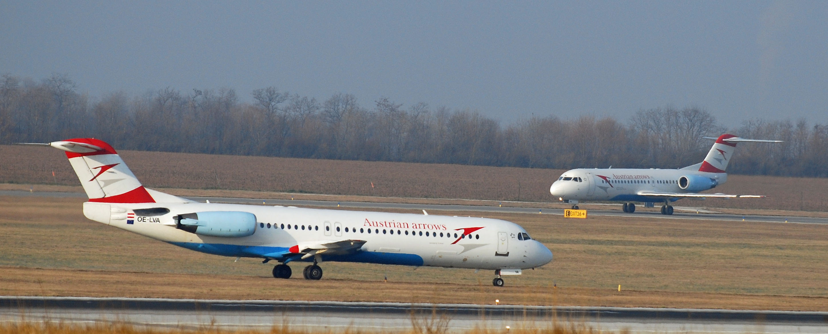 OE-LVA Austrian Arrows Fokker 100 in the foreground and OE-LFK Austrian Arrows Fokker 70 in the background at Wien Schwechat taken with Nikon D40x